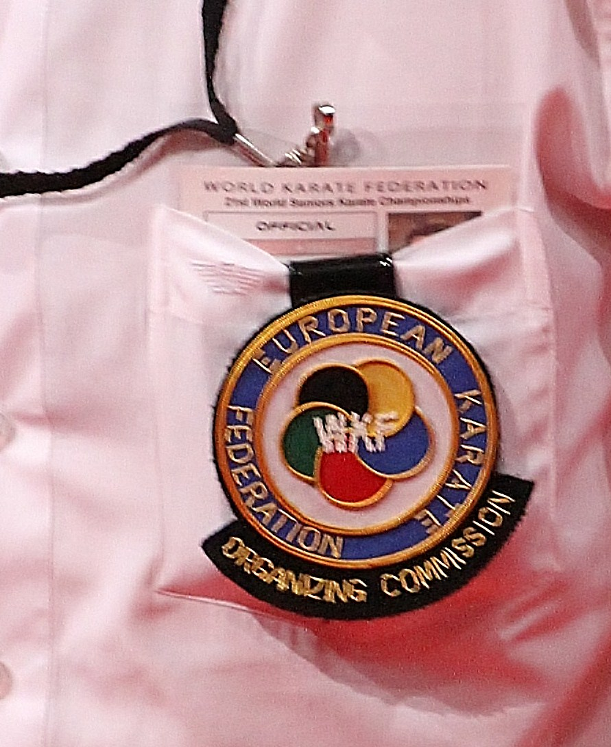 World Karate Federation Logo